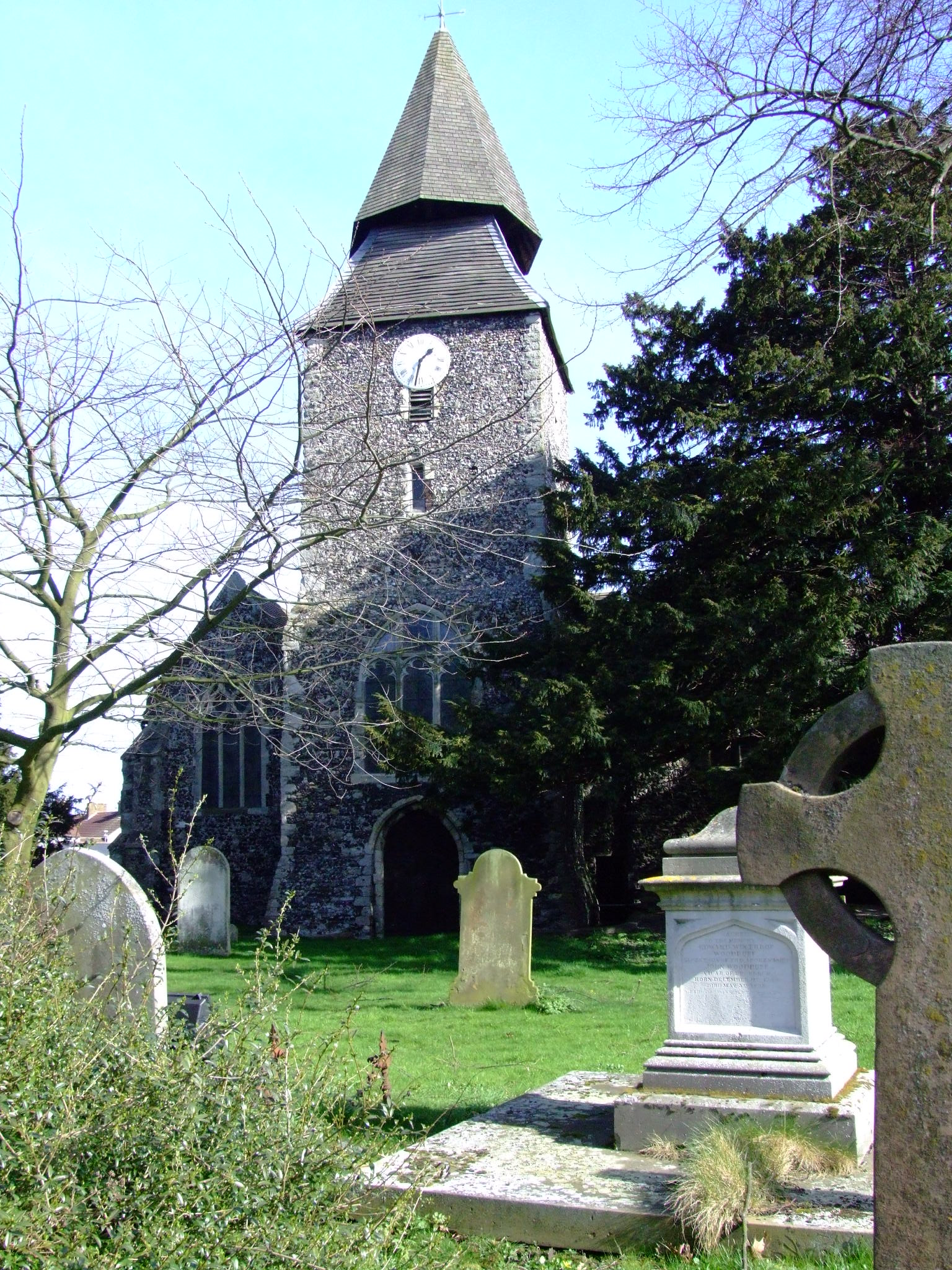 Parish church of St Mary the Virgin, Upchurch, Kent, seen from the west